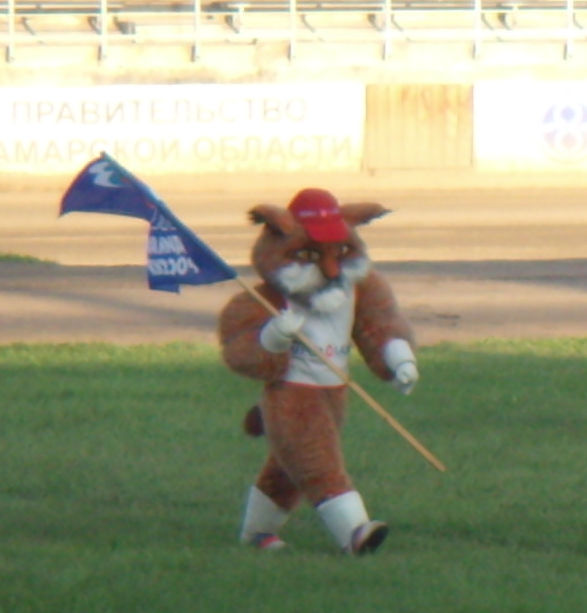 Talisman of Mega-Lada speedway team. Lynx "Lucky" # 17